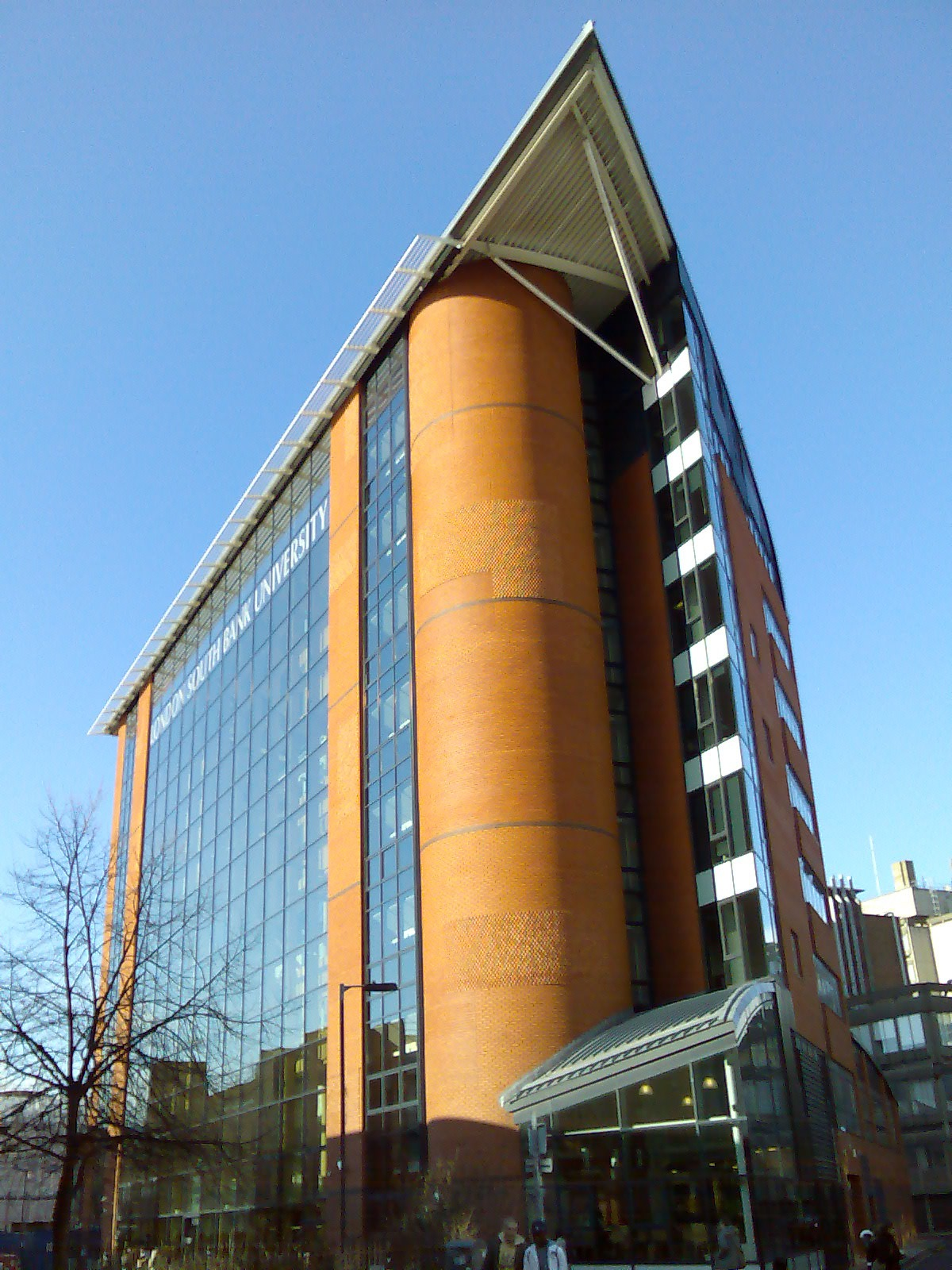 The Keyworth building and conference centre at London South Bank University in Southwark, London, England.